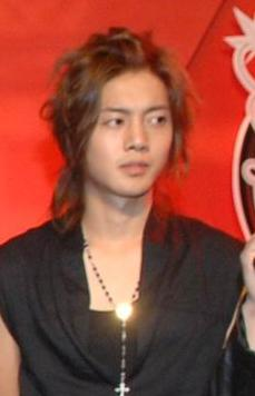 Kim Hyun Joong from SS501 at My Style My MTV on stage